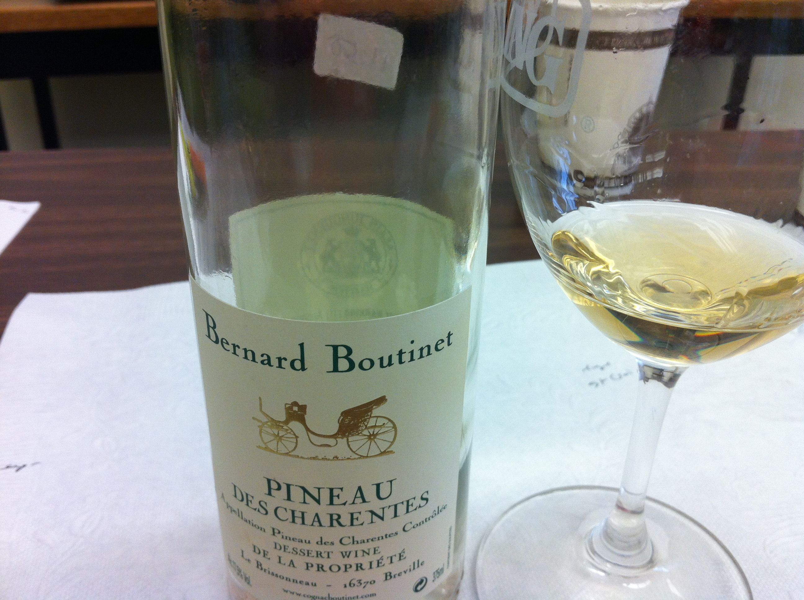 French fortified aperitif wine made in the Charente region